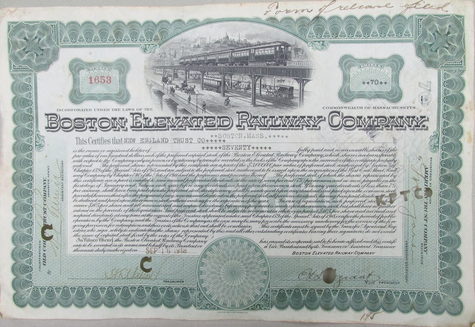 1918 Boston Elevated Railway stock certificate